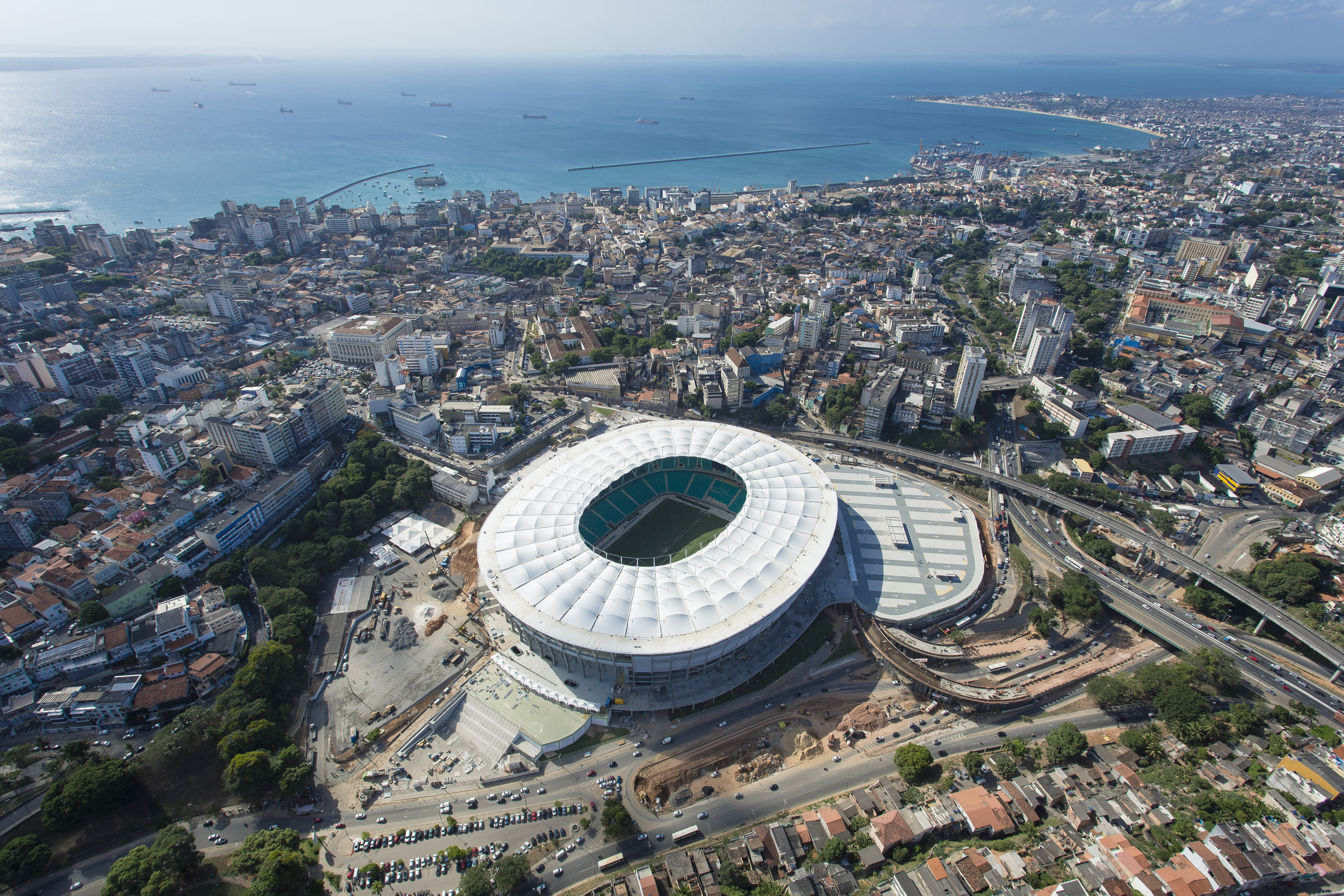 Salvador - Host City of the 2014 World Cup